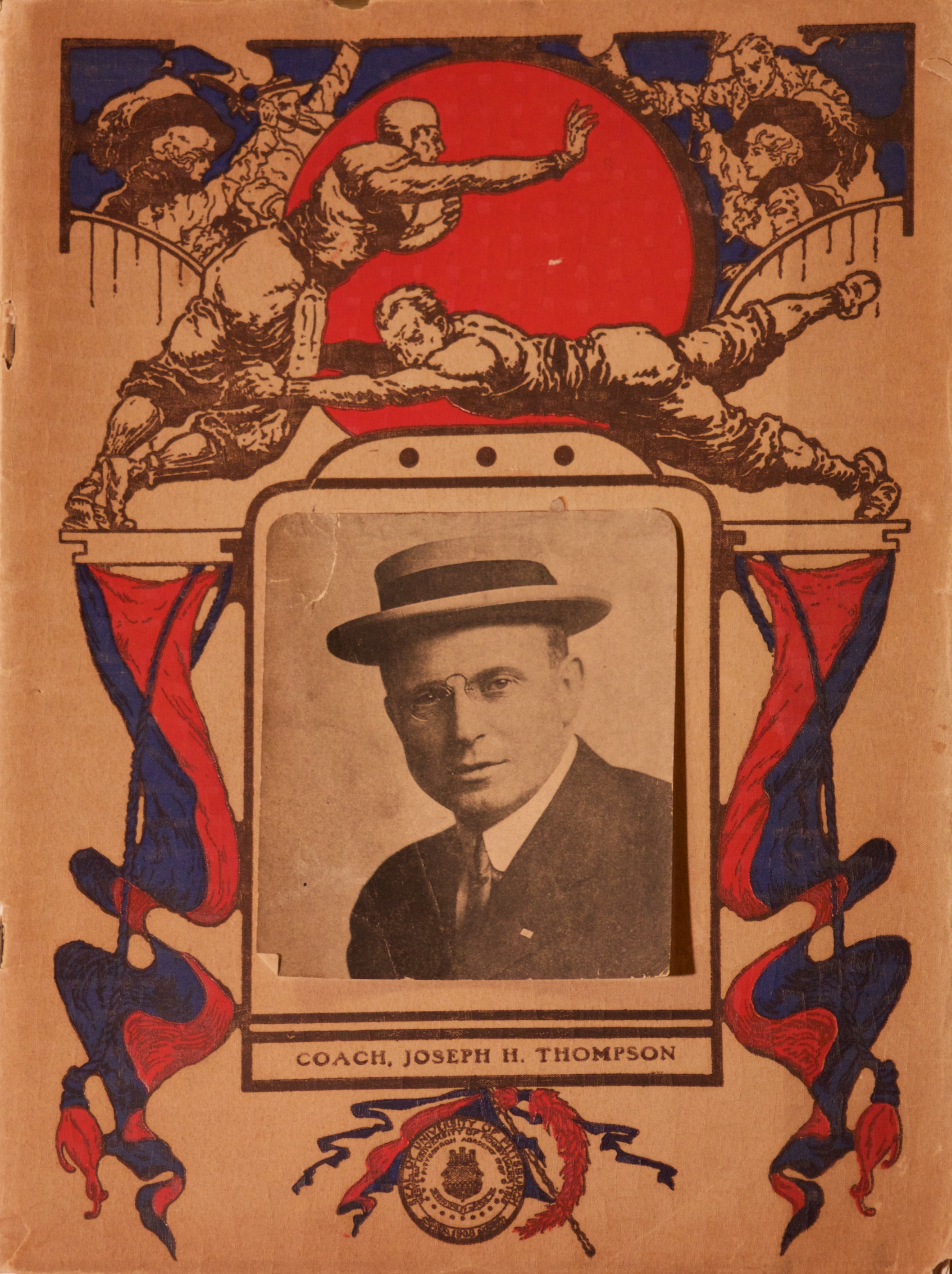 1910 University of Pittsburgh Football Yearbook/Game Program